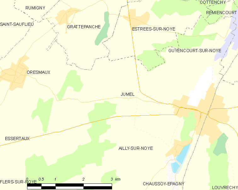 Map of French municipality Jumel